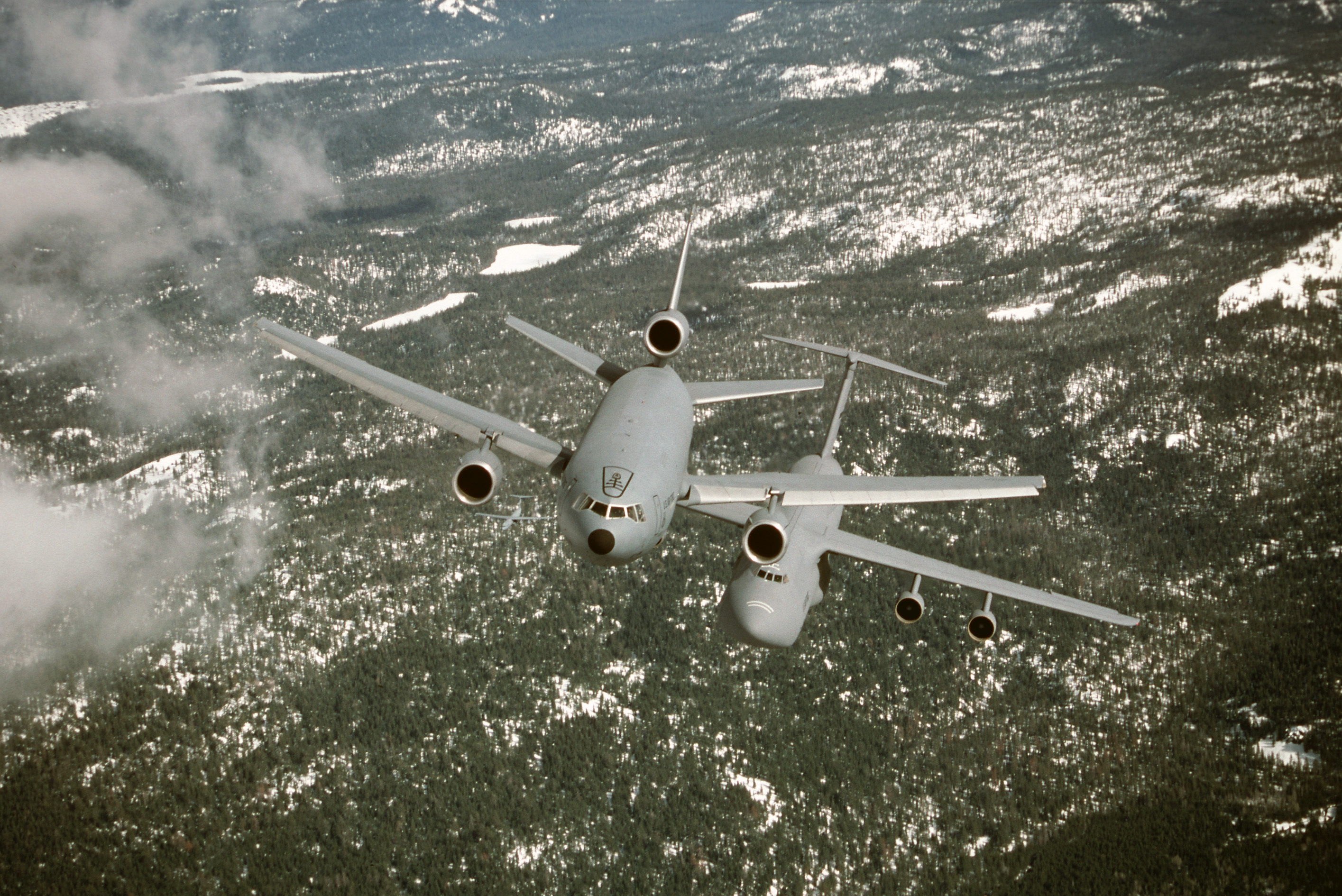 A KC-10 Extender prepares to refuel a C-5 Galaxy.